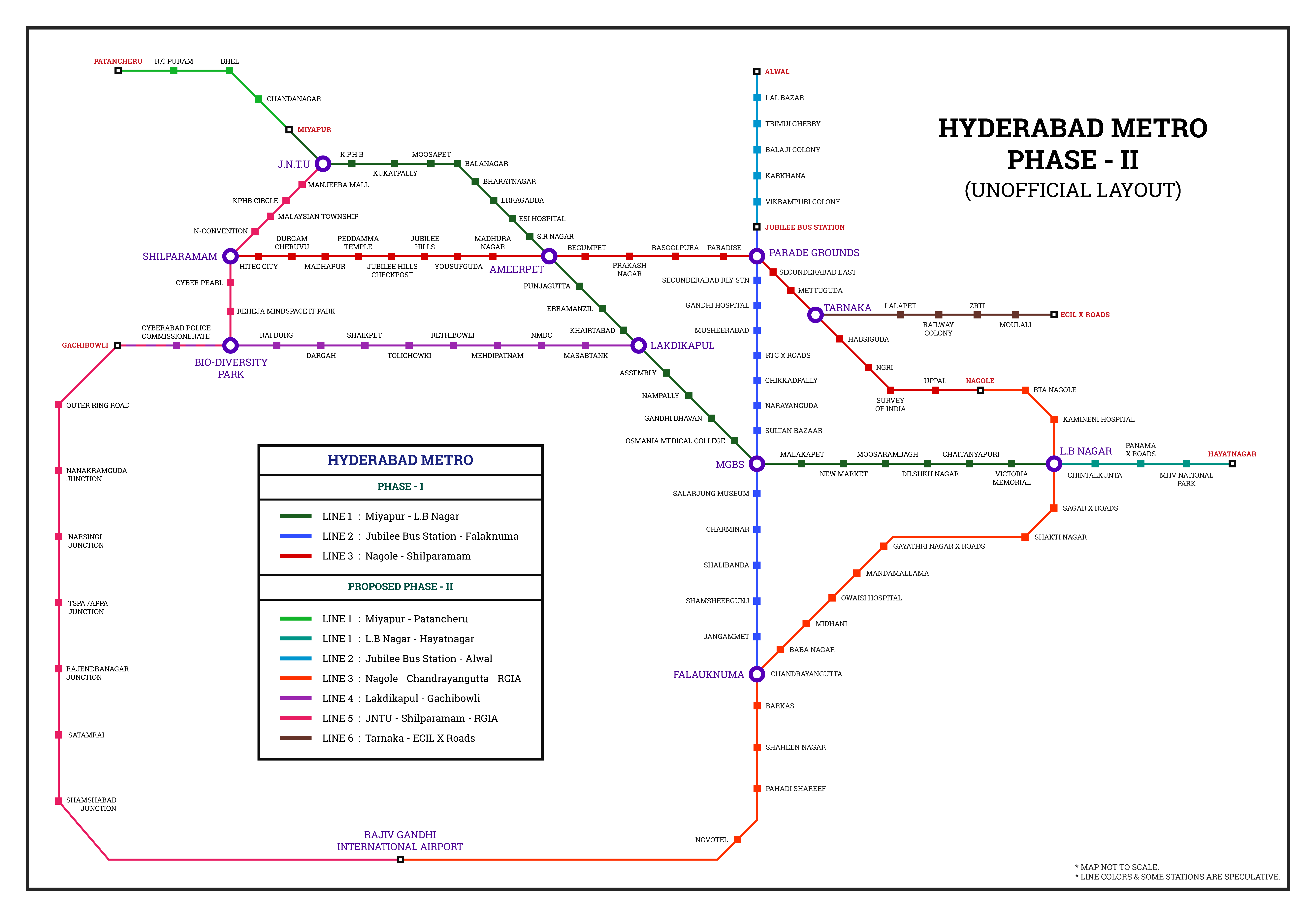 Hyderabad Metro Rail Proposed Phase 2